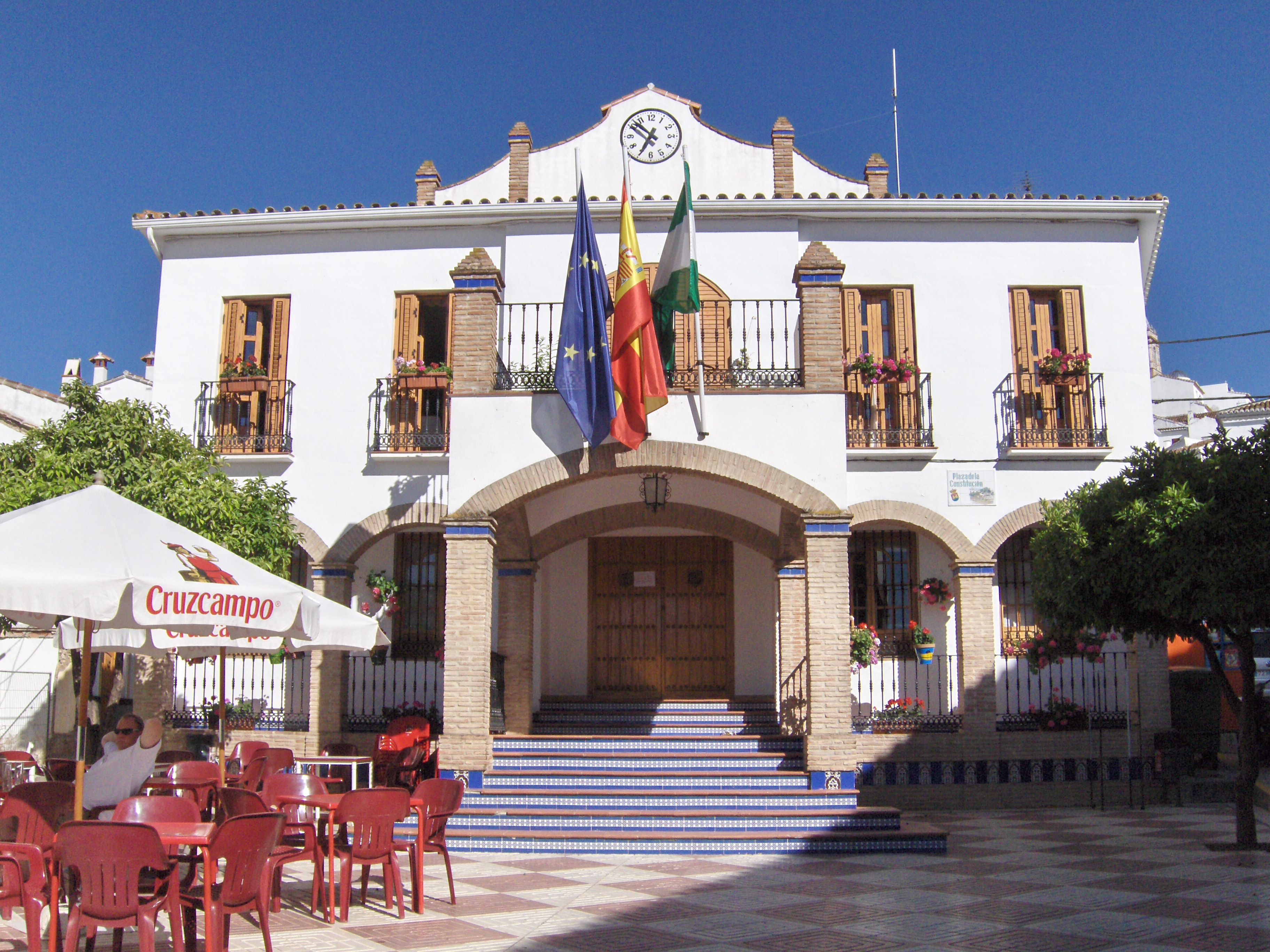 Ardales Town Hall, Málaga, Spain